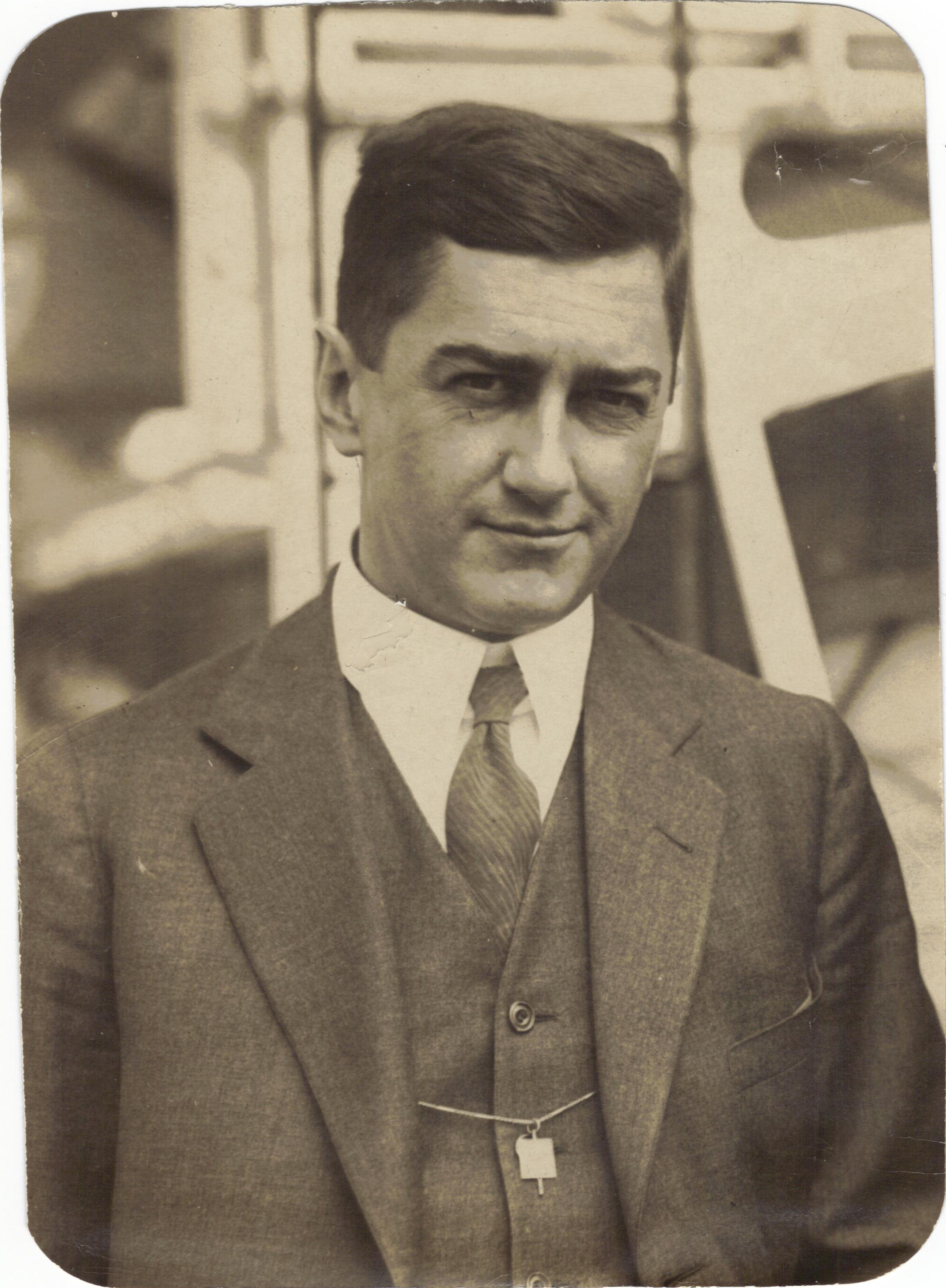 Photograph of Thomas McEwing Duncan taken when he was approximately 29 years old, prior to departing on a trip to Europe.